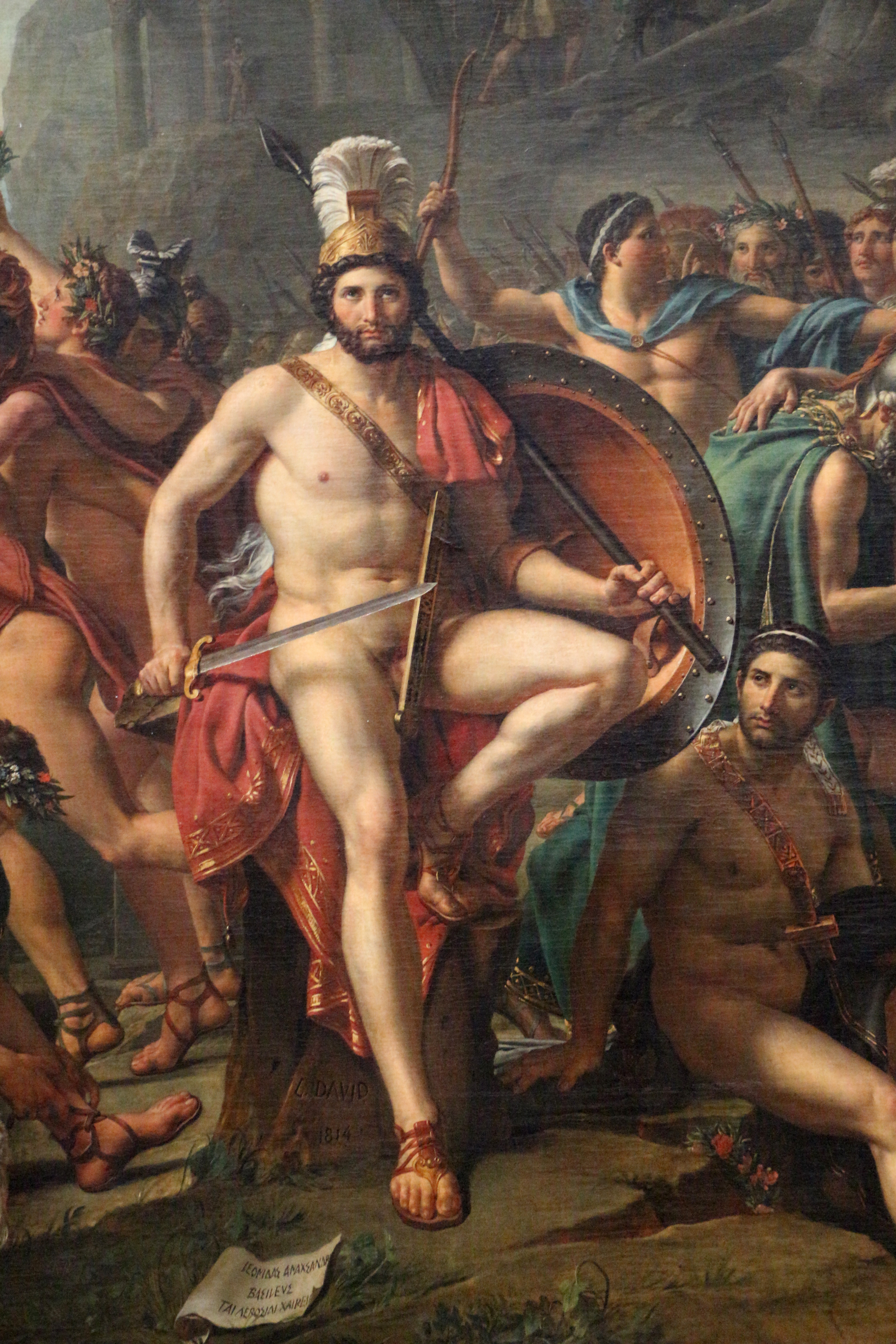 Paintings by Jacques-Louis David in the Louvre